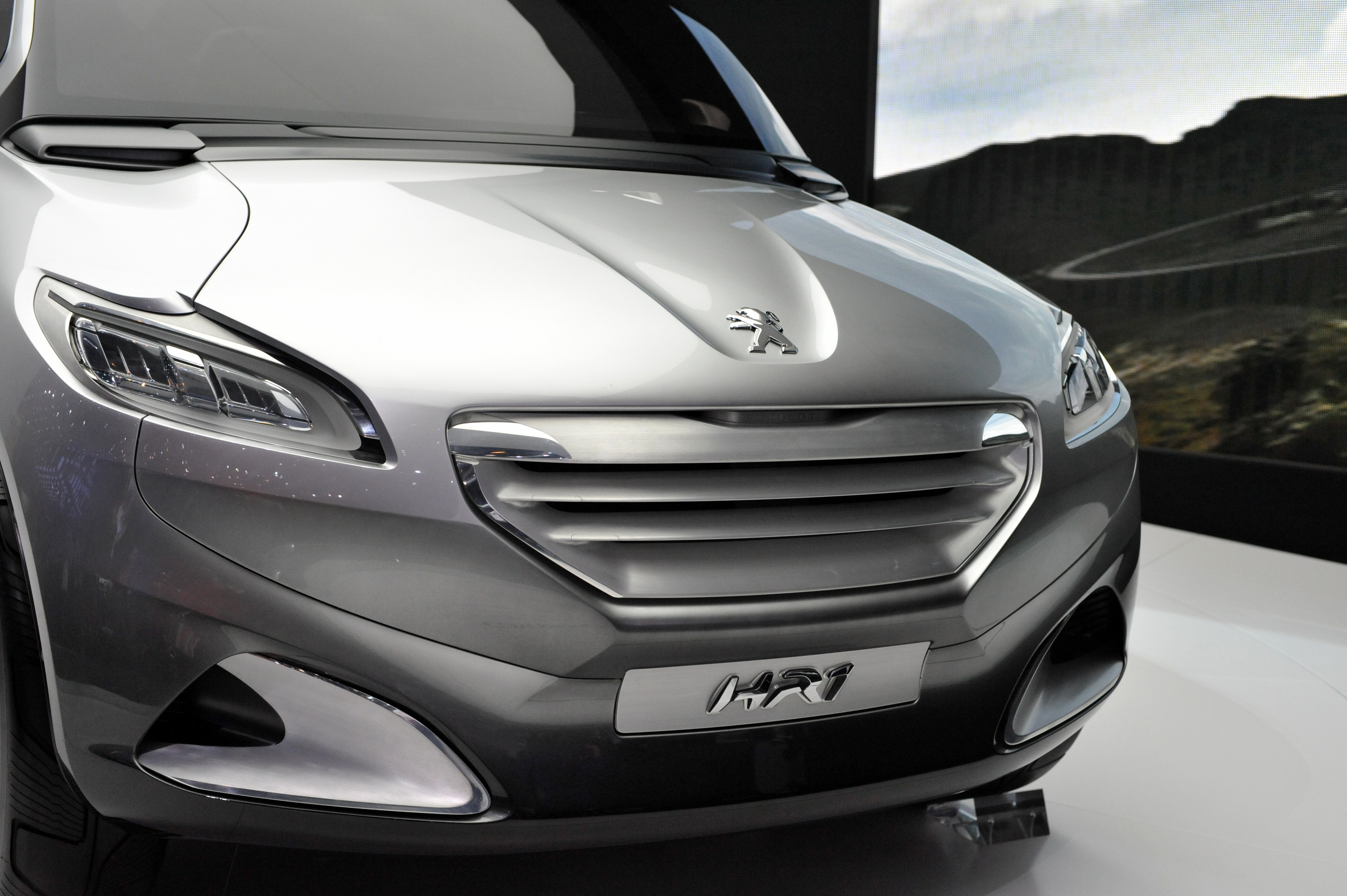 Peugeot HR1 Concept on display at the Salon Auto Show 2011, Geneva, Switzerland